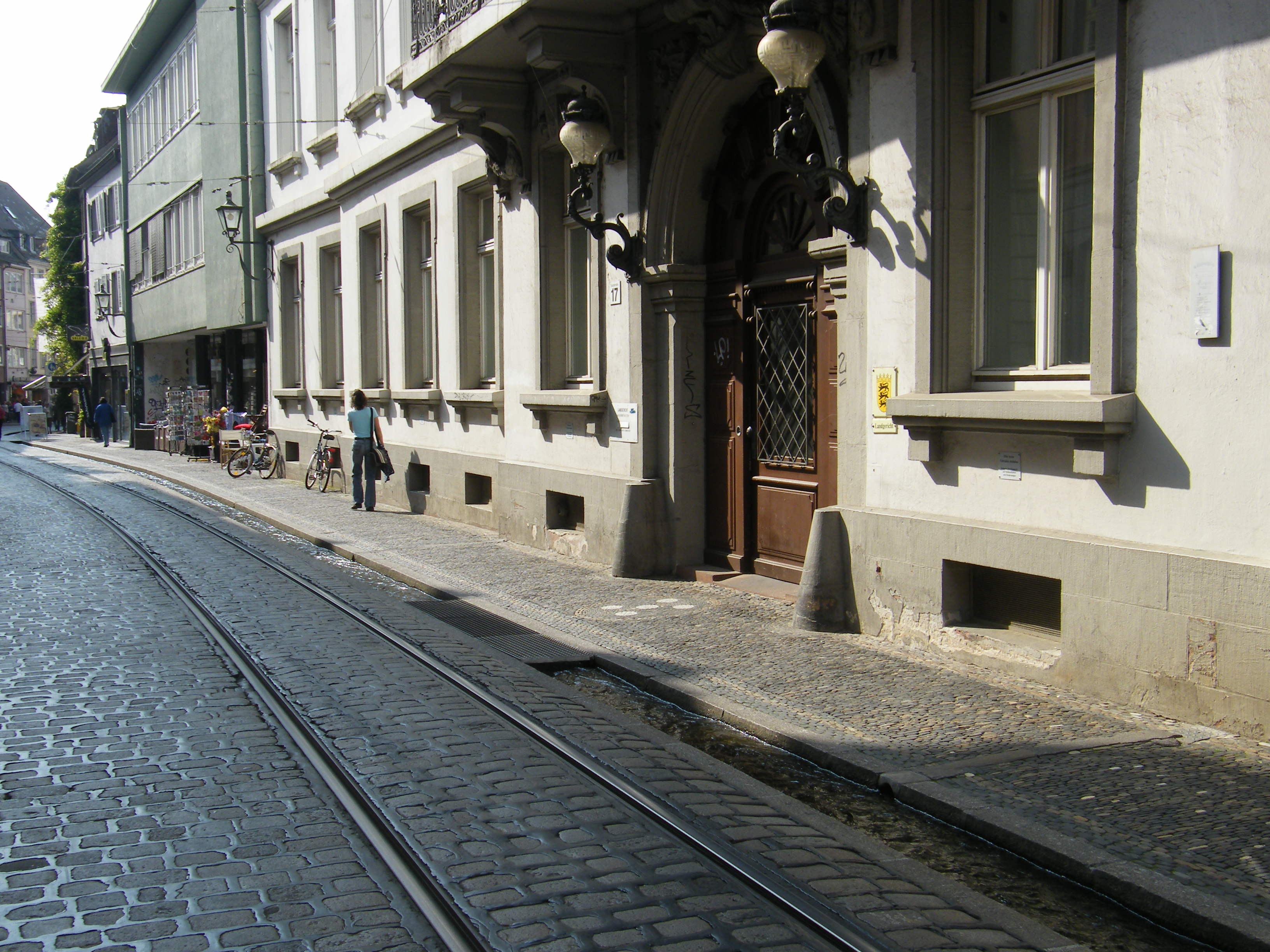 Bächle between sidewalk and tracks